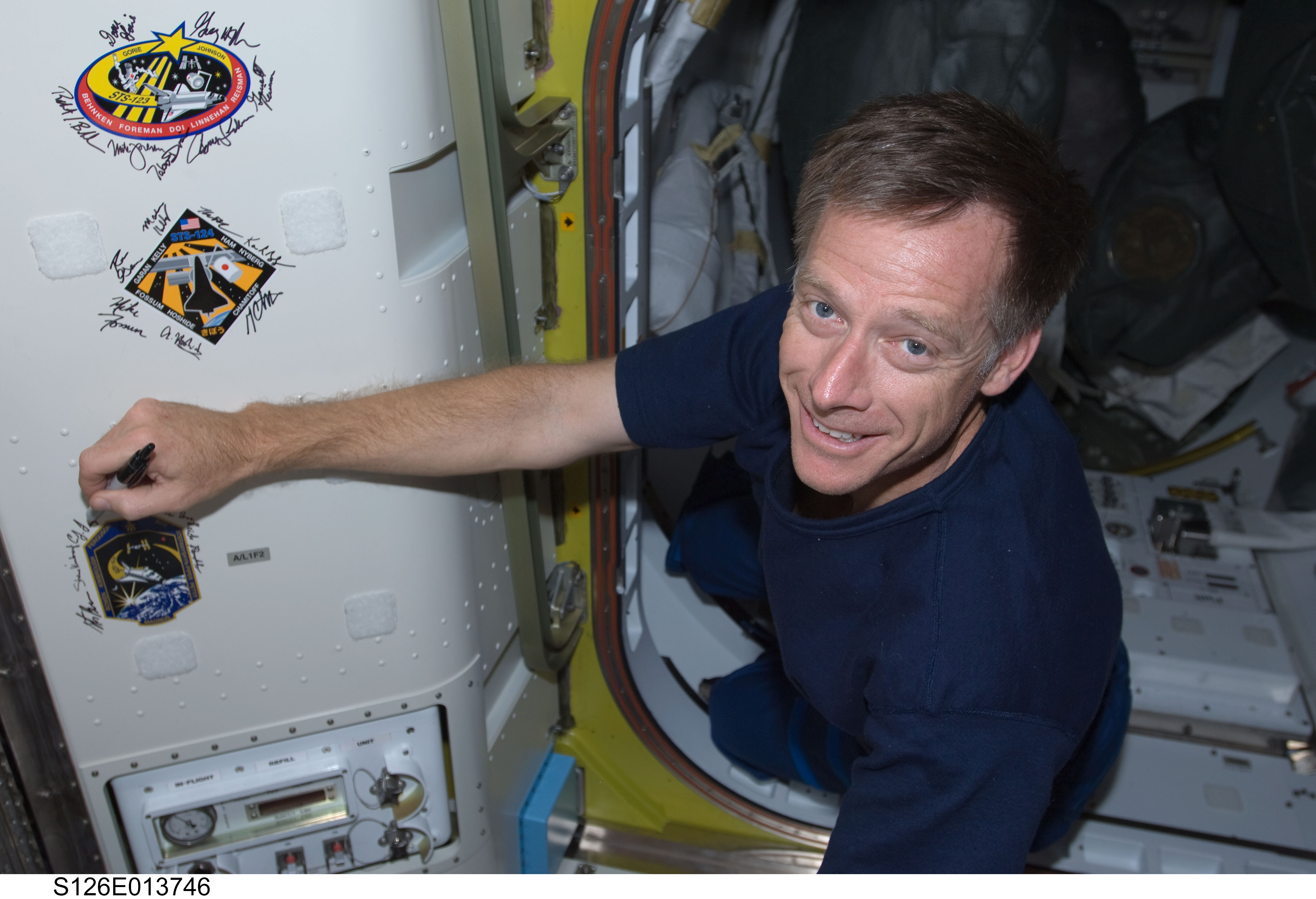 STS-126 Commander Chris Ferguson signs the STS-126 patch, which was added to the growing collection of insignia on panel A/L1F2 representing crews who performed spacewalks from the Quest / Airlock (A/L). Image was taken during Expedition 18 / STS-126 joint operations. Image #: s126e013746 Date: November 27, 2008